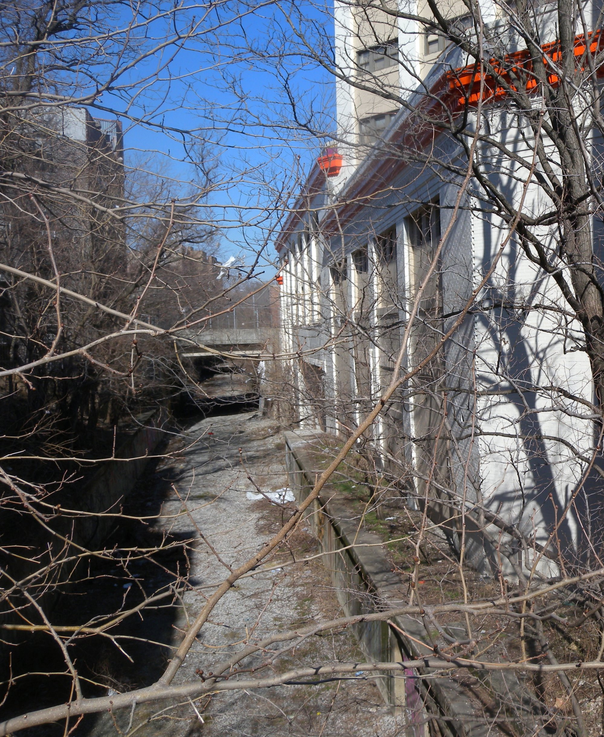 Looking northwest from overpass into former rail trench from Port Morris towards St Mary's Park on a sunny morning.